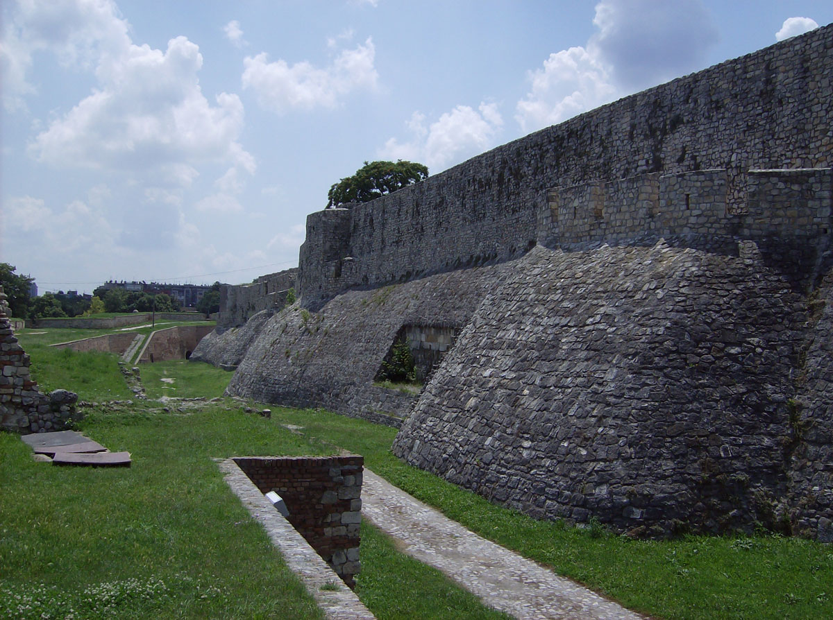 Kalemegdan fortress